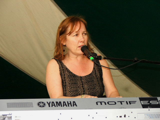 Iris Dement performing at Old Settler's Music Festival in Driftwood, Texas (2007). Photo by Ron Baker.